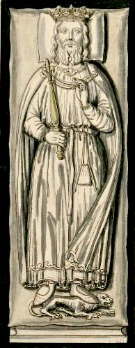 Clovis I